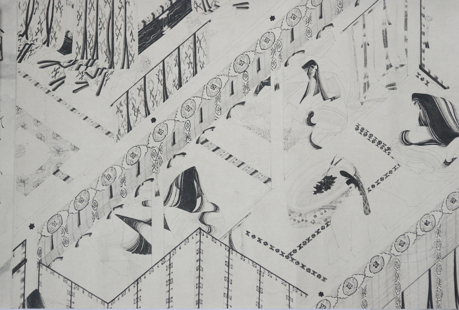 A part of one section of the Illustrated handscroll of The Pillow Book, ink on paper, 13th century, Japan